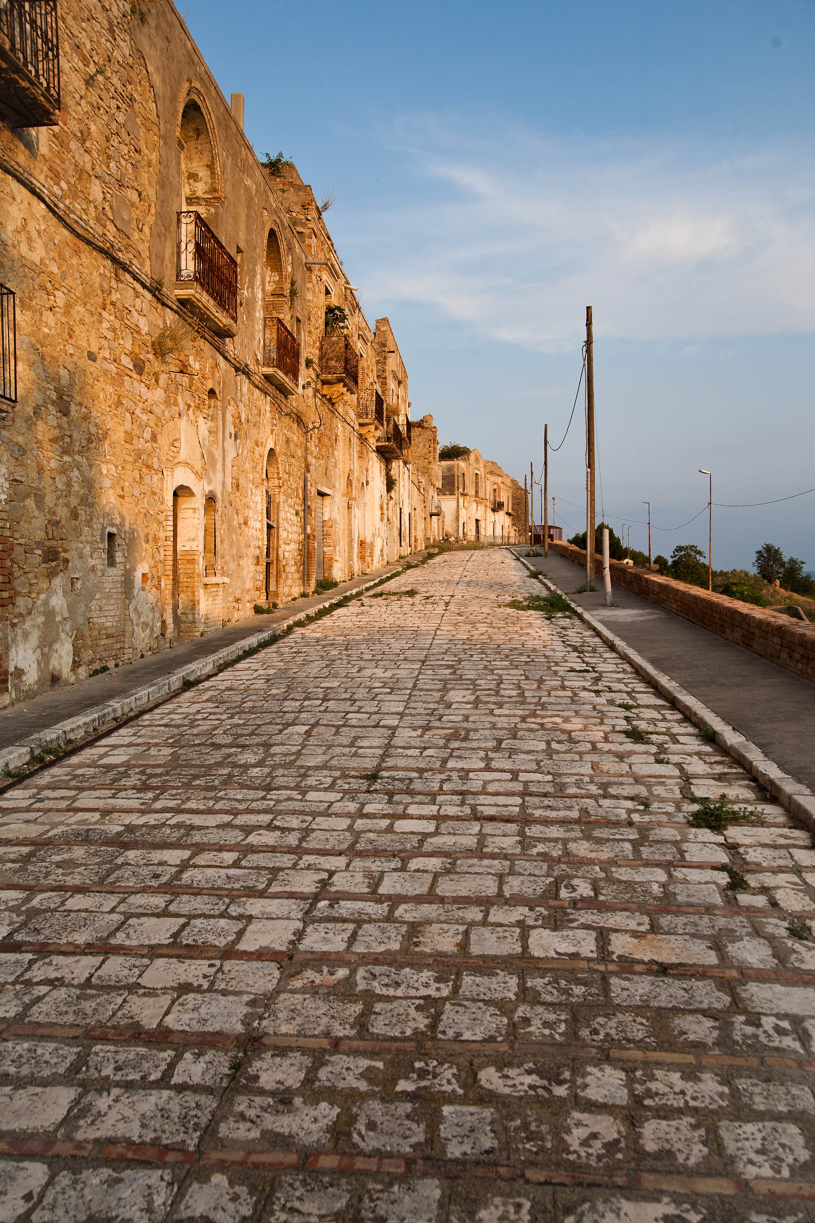 A street of Craco